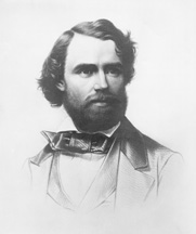 Portrait of Senator George E. Pugh of Ohio